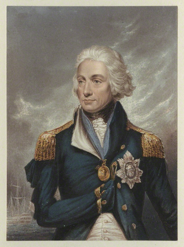 Baxter print of Horatio Nelson by George Baxter, after Lemuel Francis Abbott